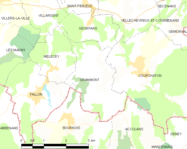 Map of French municipality